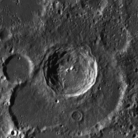 LROC . Hamilton at center.